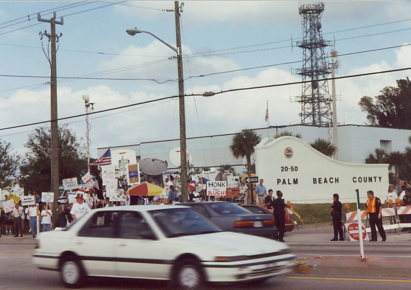 2000 presidential election recount in Palm Beach County